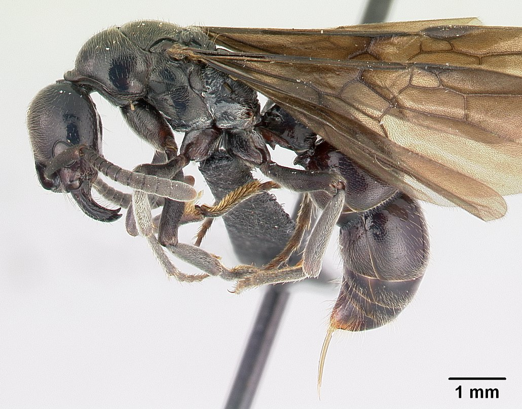 Profile view of ant Pachycondyla sikorae specimen casent0063893.